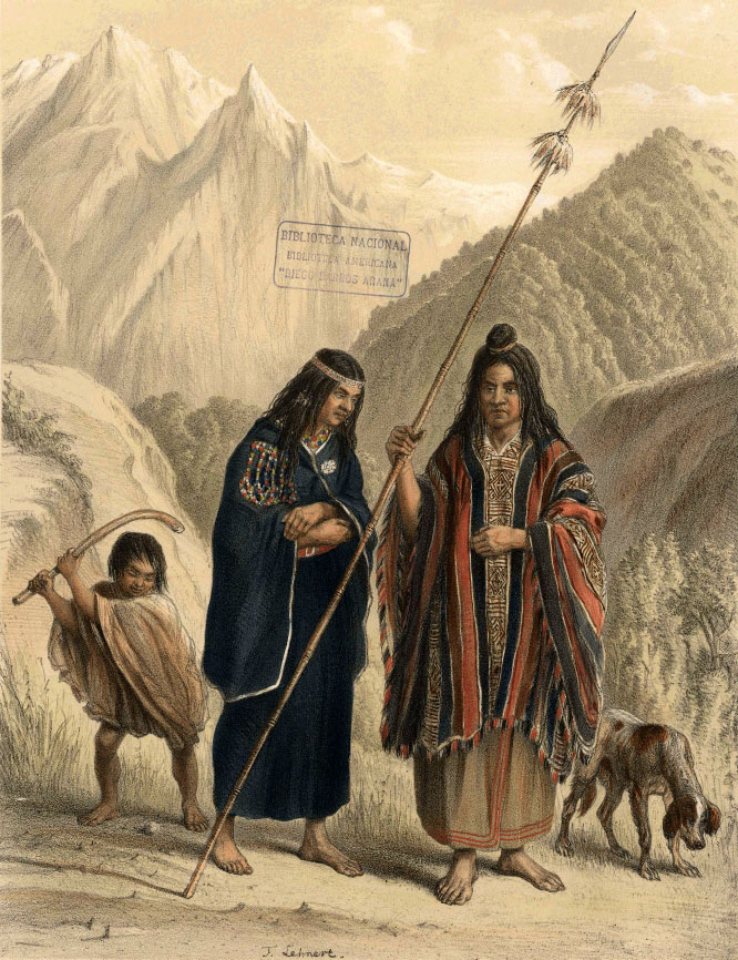 The Mapuche (Mäpfuchieu) are the indigenous inhabitants of Central and Southern Chile and Southern Argentina. They were known as Araucanians (araucanos) by the Spaniards. This is now considered pejorative by the people and the term Mapuche is the one most often used by people in conversation. Mapuche make up about 4% of the Chilean population,[2] who are particularly concentrated in the Araucania Region.